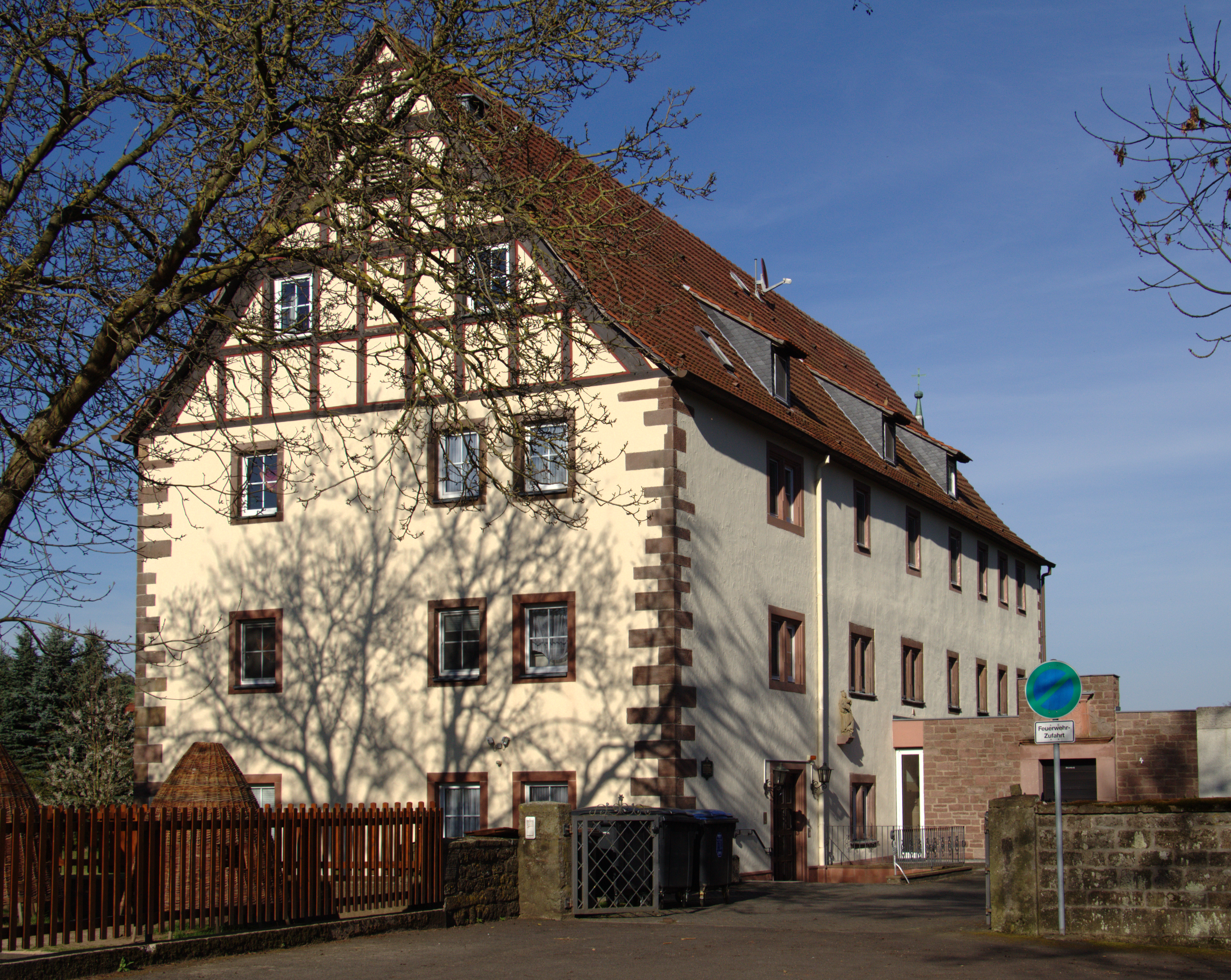 Building (Hospital St. Elisabeth) in Blankenau St. Elisabethen Weg 4, Hosenfeld, Hessen, Germany